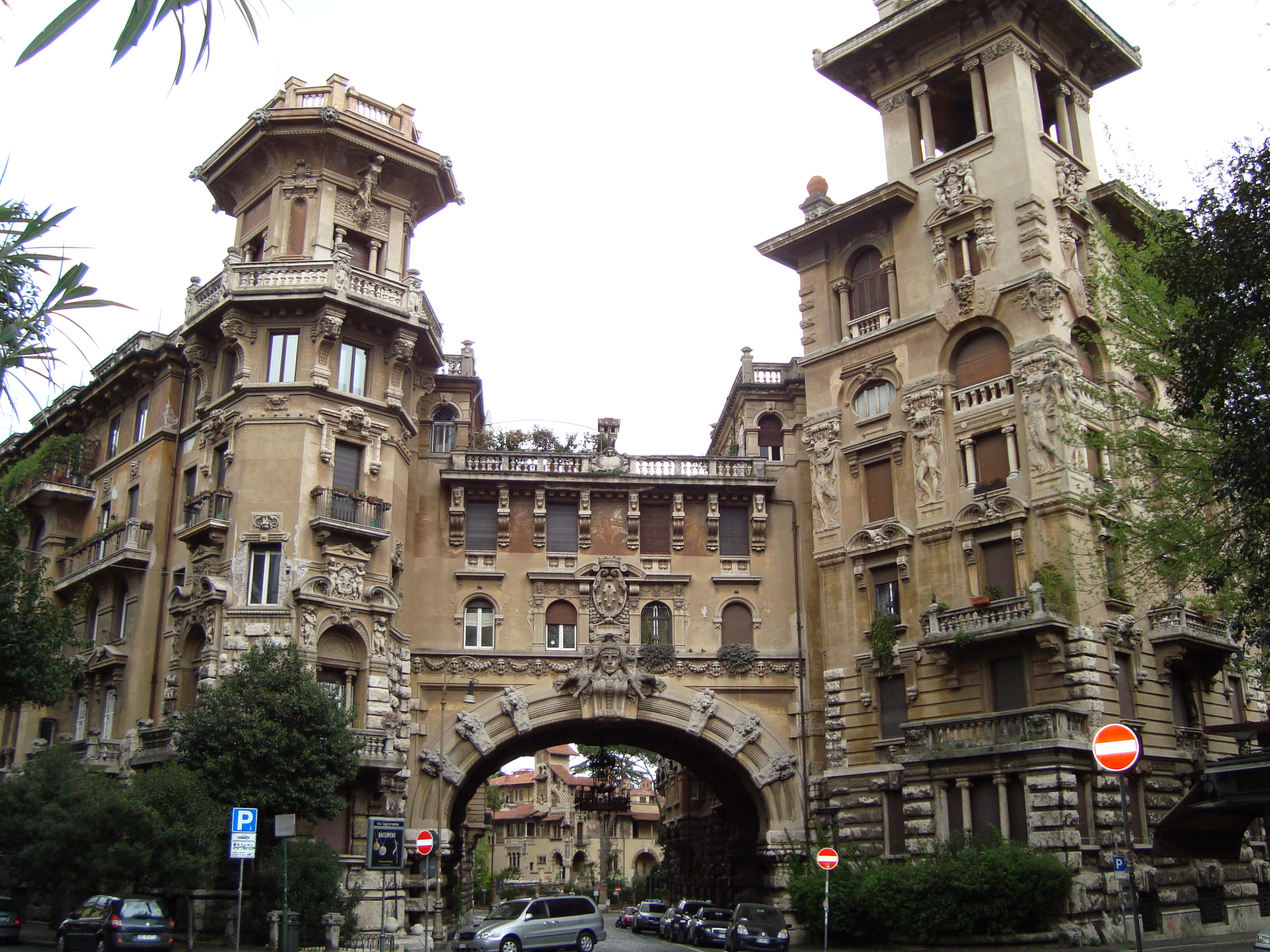 Quartiere Coppedè in Rome